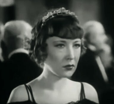 Yola d'Avril in Monte Carlo Nights (1934) - cropped screenshot